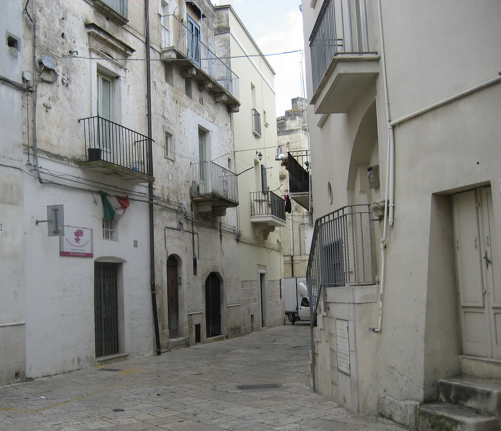 The streets of Altamura, Italy